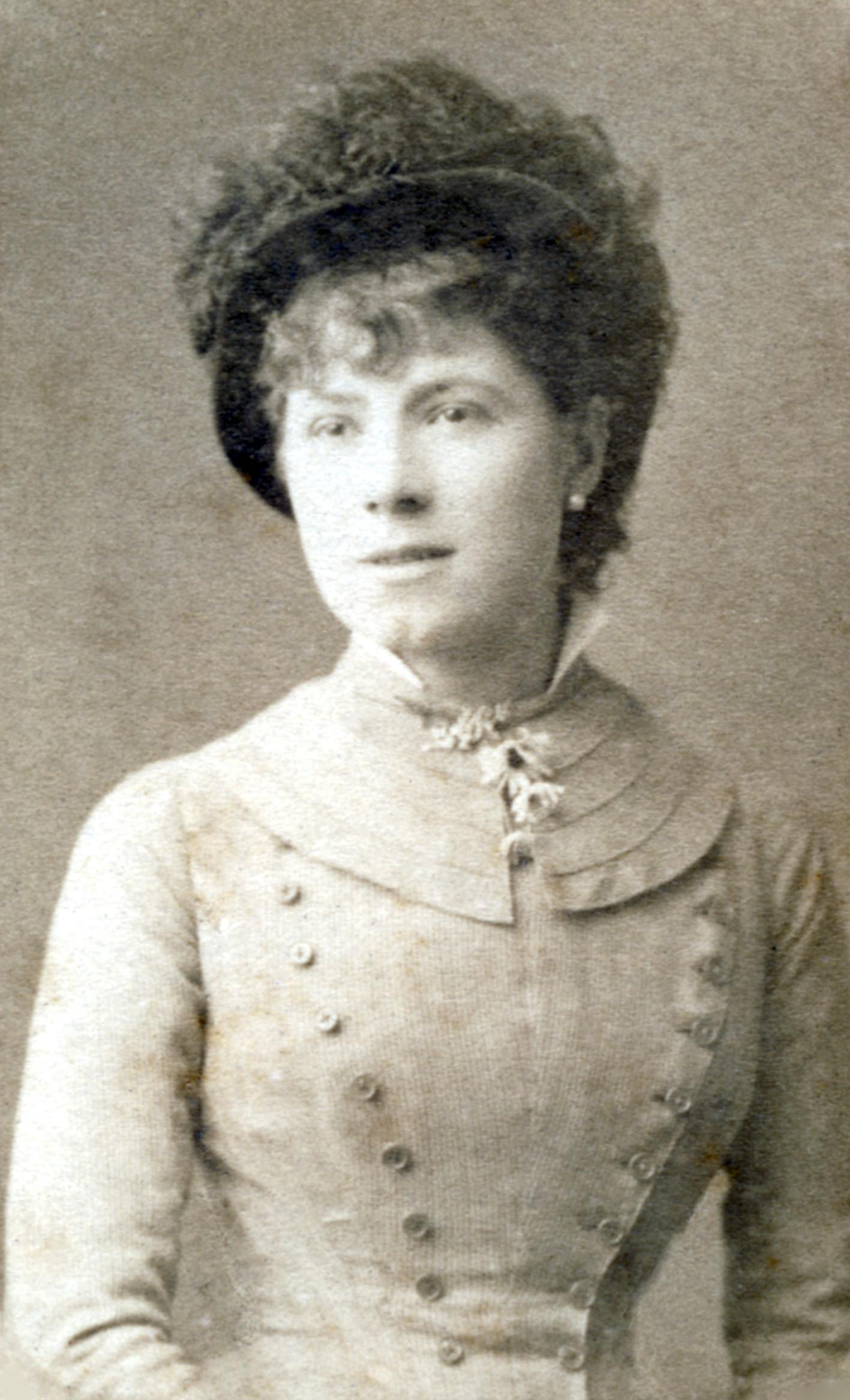 Jeanne Granier - French soprano and actress circa 1880